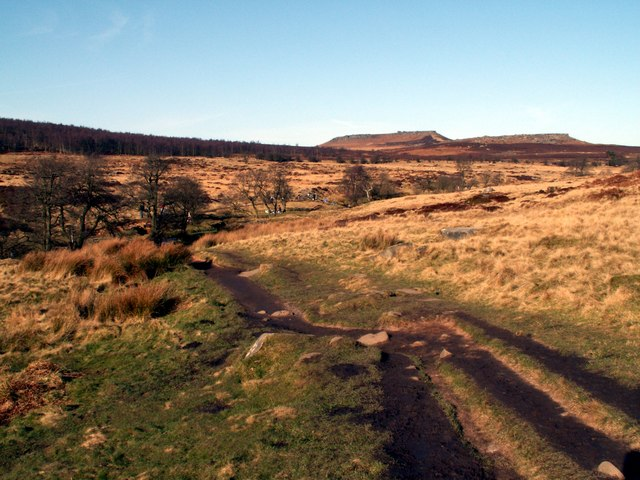 Longshaw Looking to the hill forts of Higgor Tor and Carl Wark which can be seen on the skyline. Burbage Brook runs below the centre tree line.